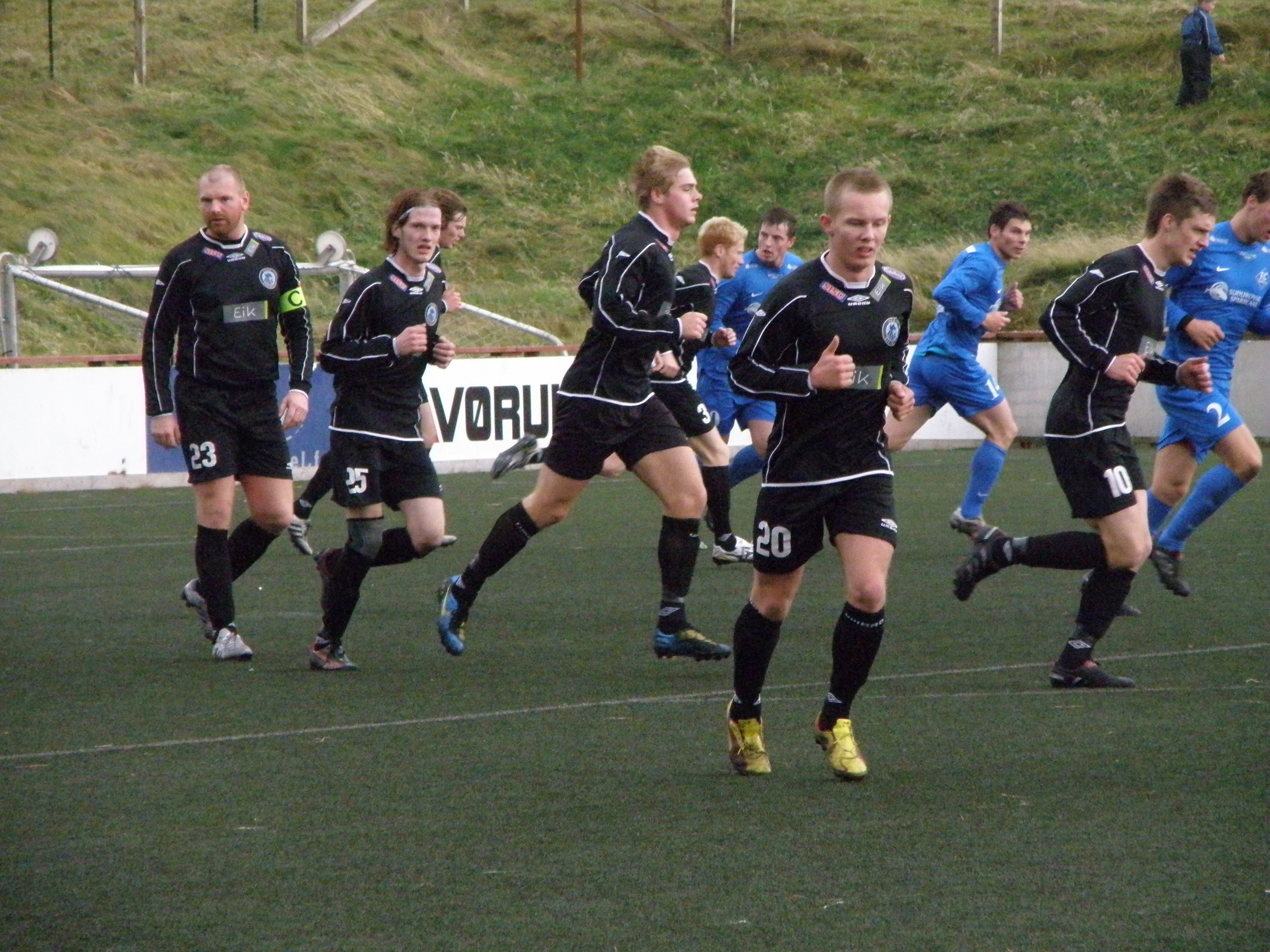 Football match in Vodafonedeildin in the Faroe Islands. The match was played on Vágseiði in Vágur, Suðuroy between FC Suðuroy and Víkingur Gøta. The result was 0-2, Víkingur won. Føroyskt: Dystur vesturi á Eiðinum í Vági millum FC Suðuroy og Víking 17. oktober 2010. Úrslitið gjørdist sigur til Víking. Víkingur vann dystin 2-0.